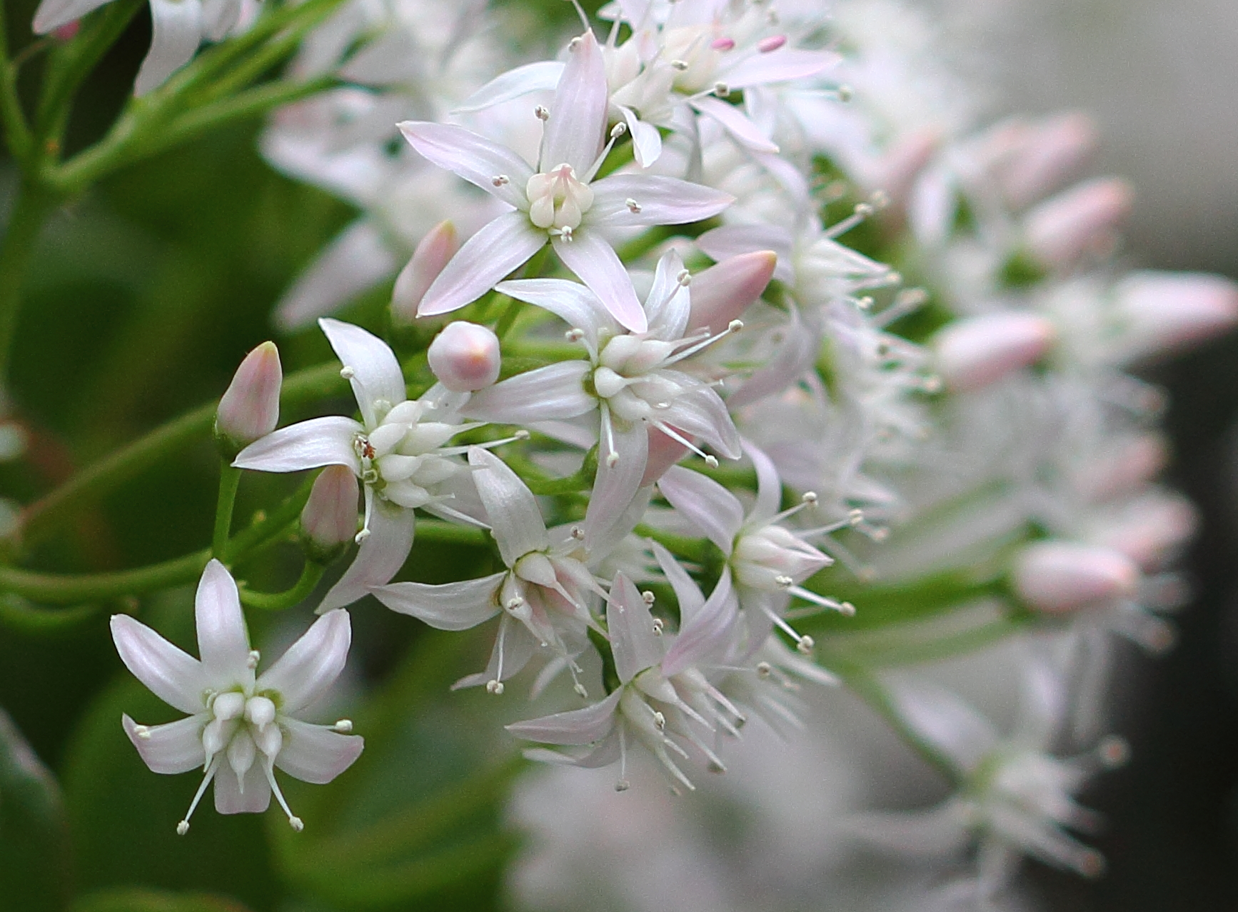 Blossoms of Jade plant - close-up, picture taken in botanical garden Flora in Cologne, Germany